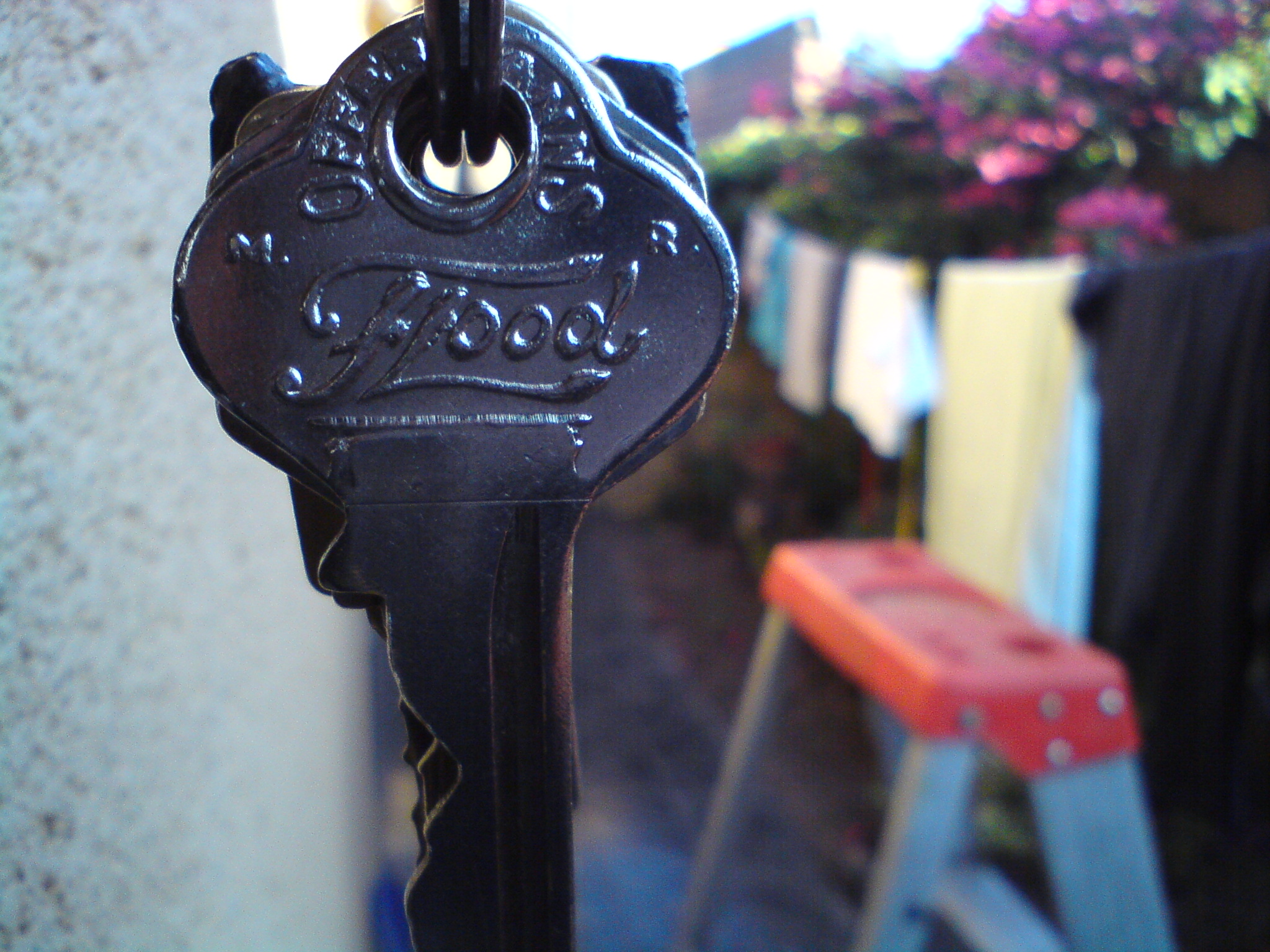 Foto de una llave Flood tomada con la opción macro de la cámara Cybershot integrada ael celular Sony Ericsson C510.